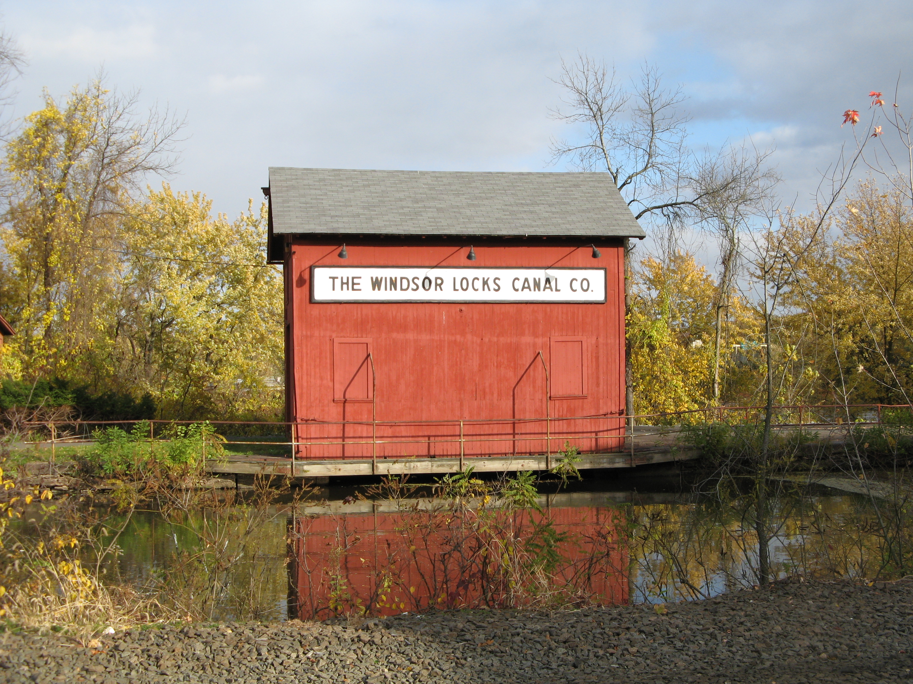 The Windsor Locks Canal Company situated alongside the Enfield Falls Canal in Windsor Locks, Connecticut.